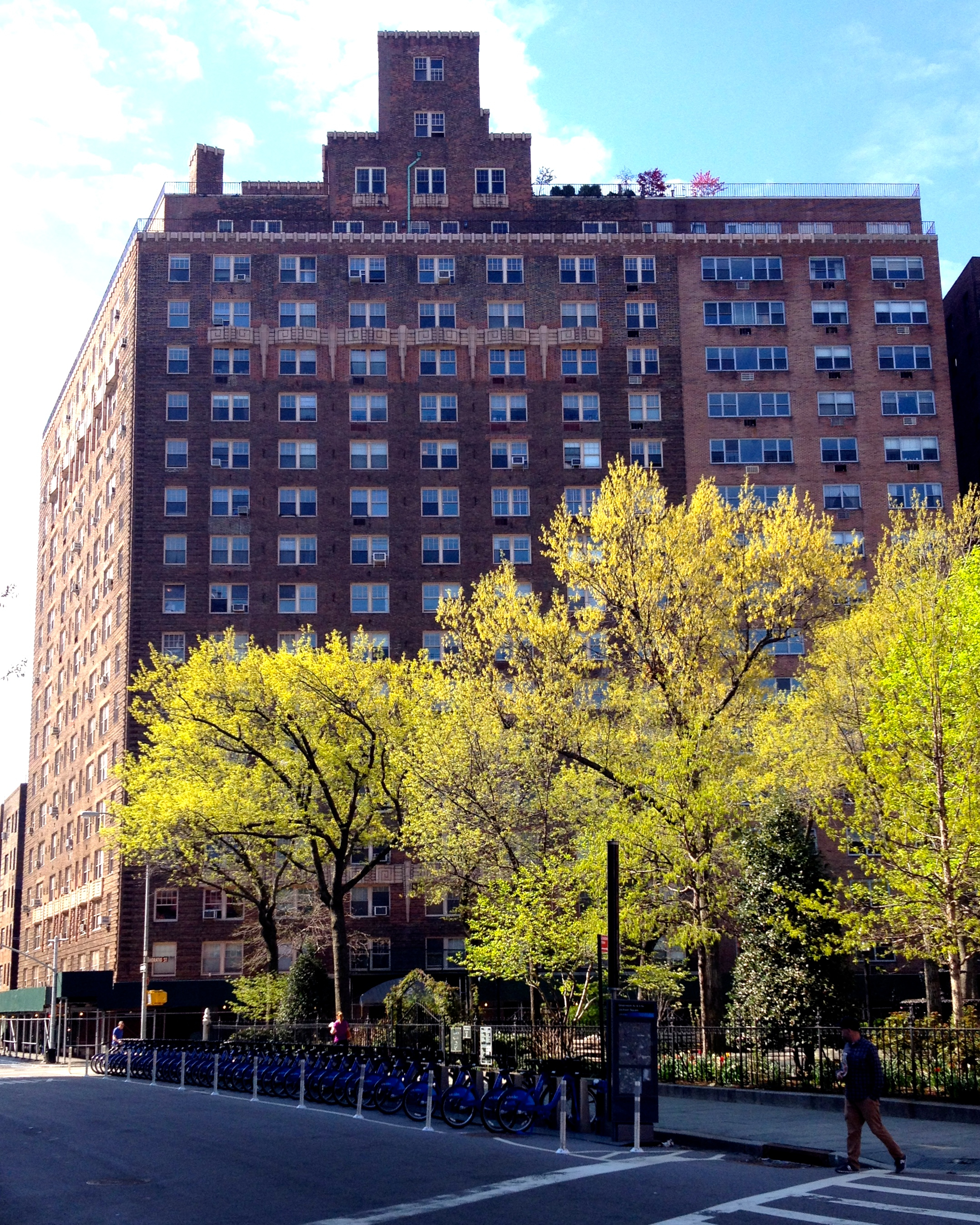 2 Horatio Street is in the Greenwich Village Historic District of New York City. Photo Spring 2014.